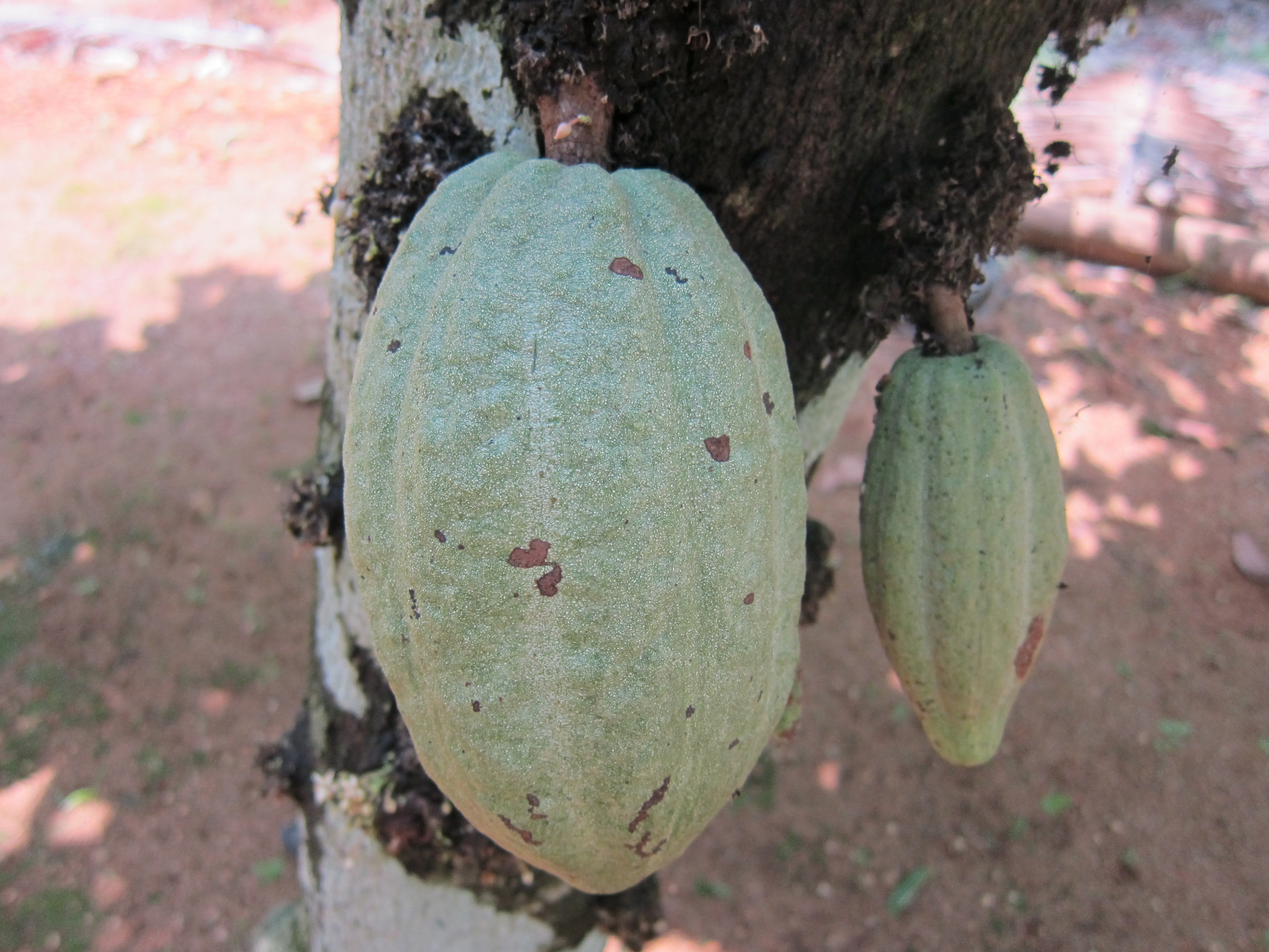 Coco in Green Colour